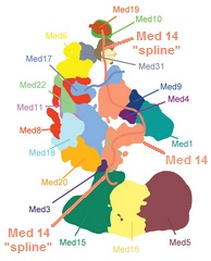 Mediator complex architecture with focus on Med 14